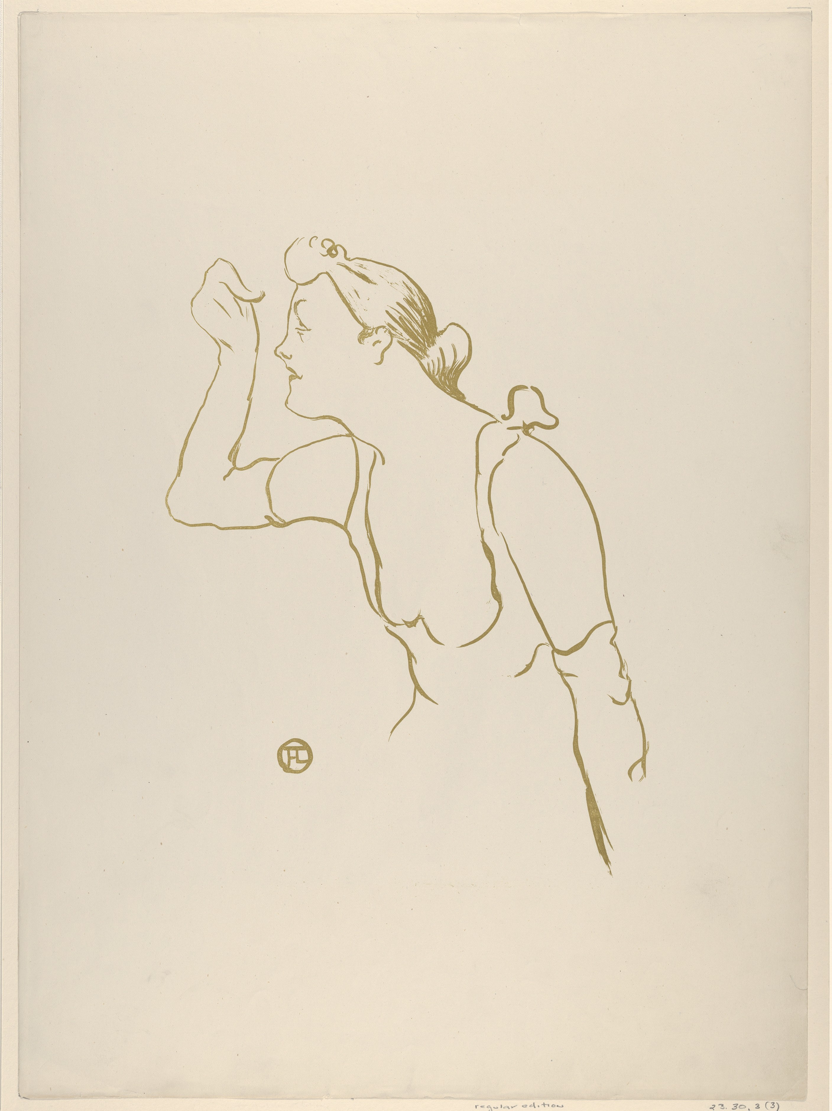 Print; Prints